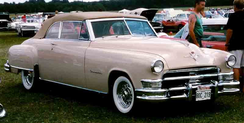 1951 Chrysler Imperial C-54 series Convertible